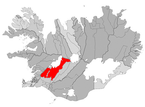 Based on Municipalities of Iceland.png.